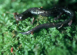 Cheat Mountain Salamander (Plethodon nettingi), Canaan Valley National Wildlife Refuge